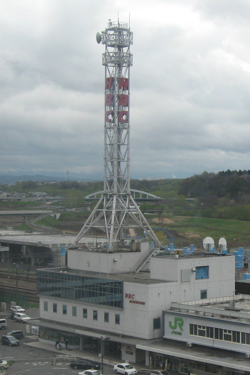 Bird's-eye of Hokkaido Broadcasting Co. (HBC) Asahikawa Broadcasting Station, photographed from Washinton Hotels Asahikawa. Miyashita-dôri, Asahikawa, Hokkaido.